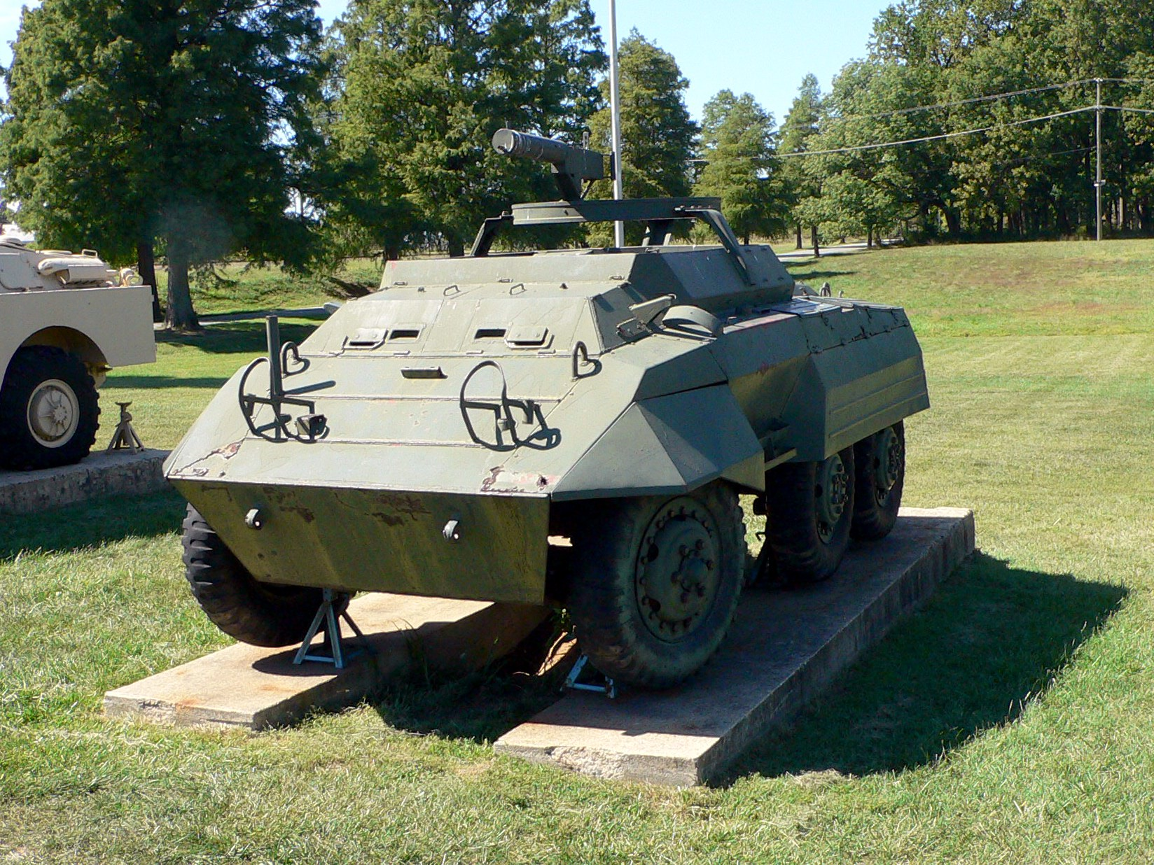 Picture taken by myself, Mark Pellegrini, at the United States Army Ordnance Museum (Aberdeen Proving Ground, MD)